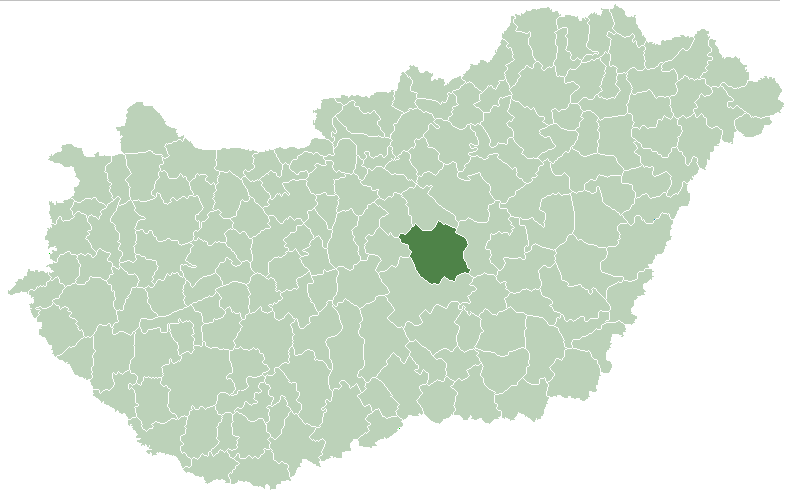 Location of subregion Cegléd, Hungary